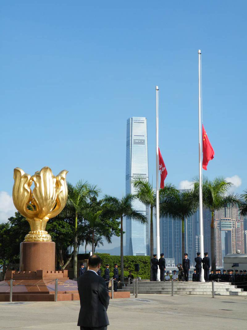 A ceremony for flag-raising and lowering to half-mast at Golden Bauhinia Square, and observation of three minutes of silence in mourning at 8 am, 26 August 2010. 為悼念在菲律賓挾持人質事件中遇難的香港市民，香港特區政府於2010年8月26日早上8時在灣仔金紫荊廣場出席升旗及下半旗儀式，並默哀3分鐘。